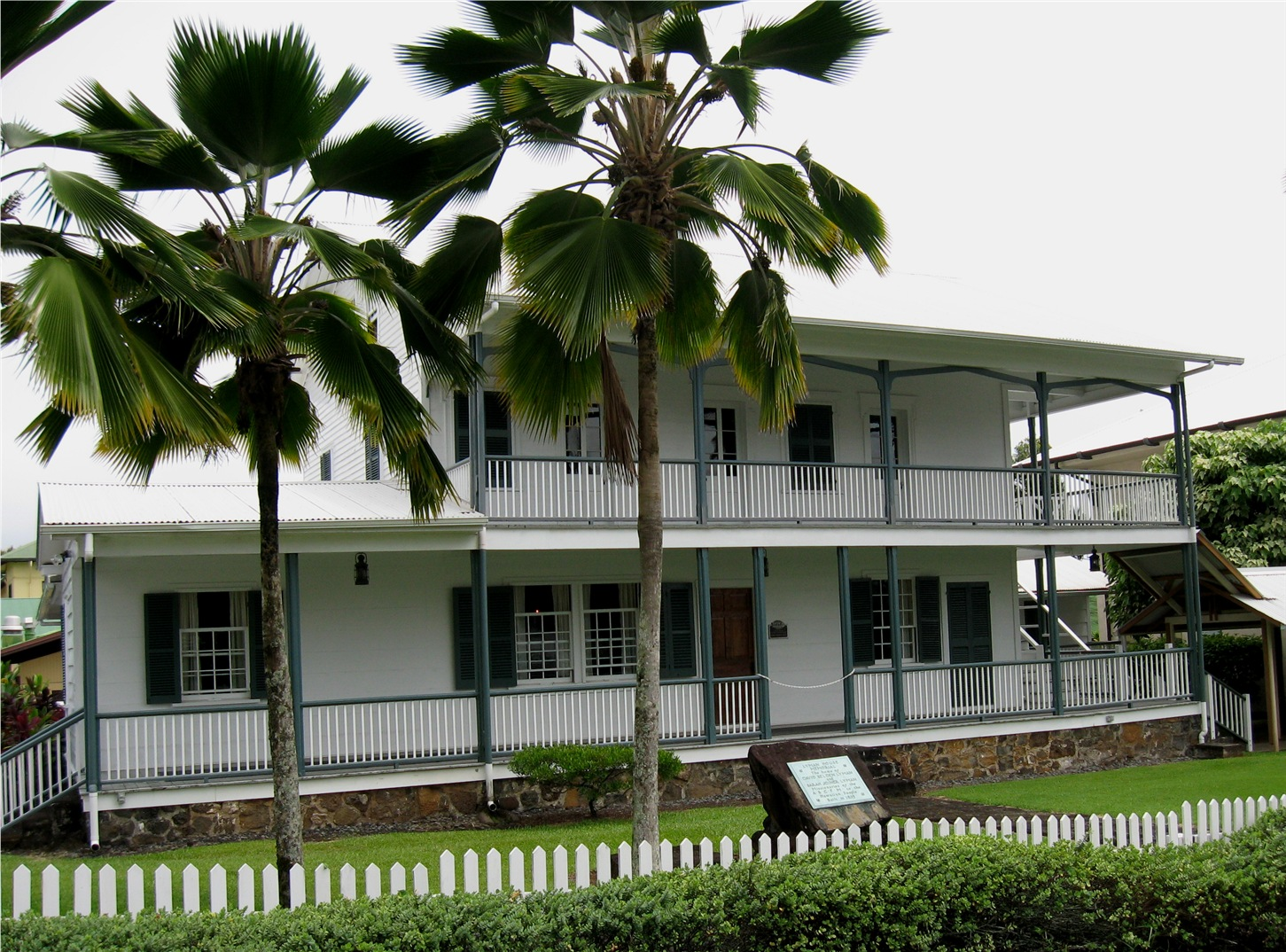 House of missionaries David Belden Lyman and Sarah Joiner Lyman, built in 1838, now a museum in Hilo, Hawaii